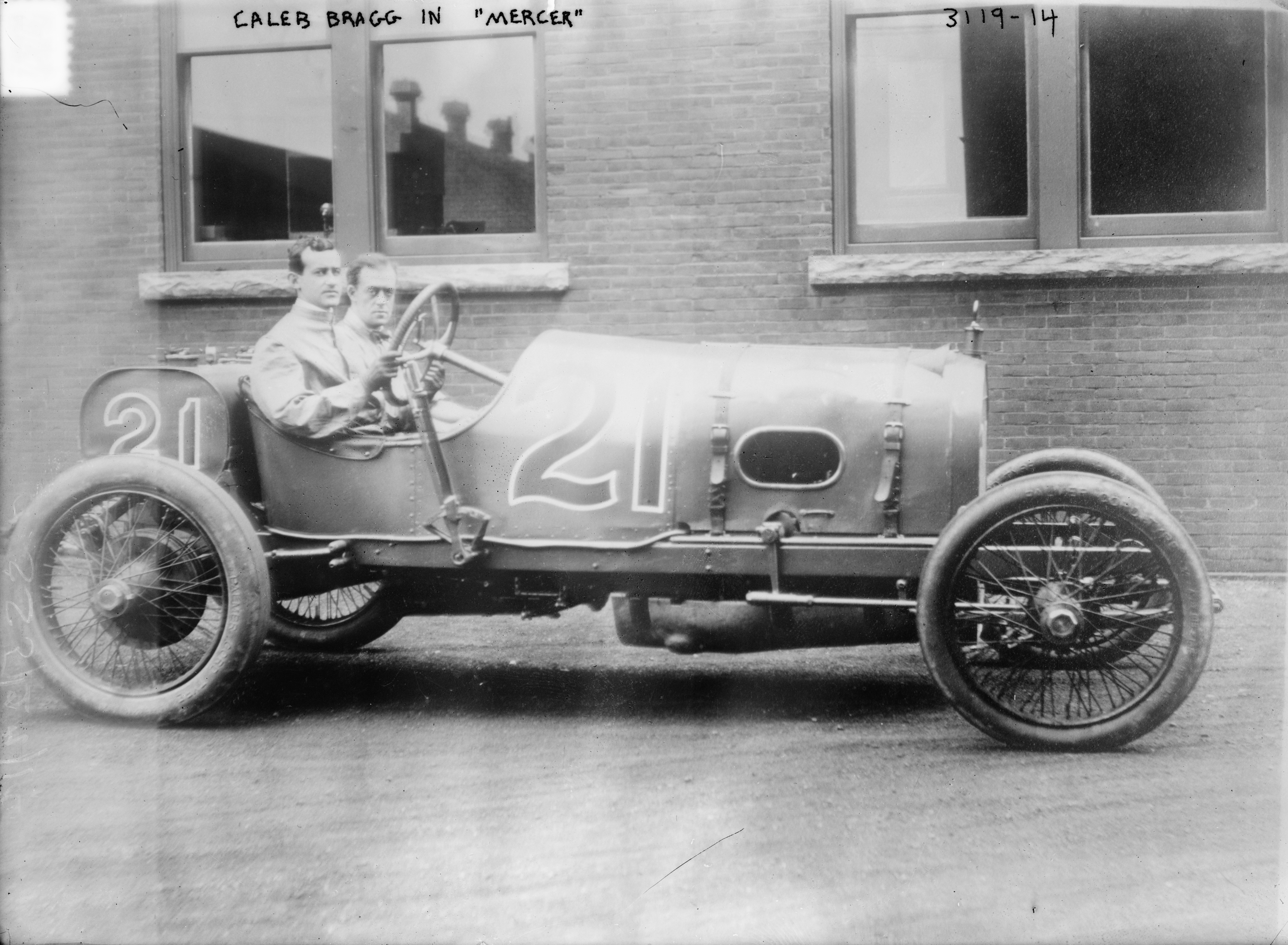 Caleb Bragg in Mercer in 1910s